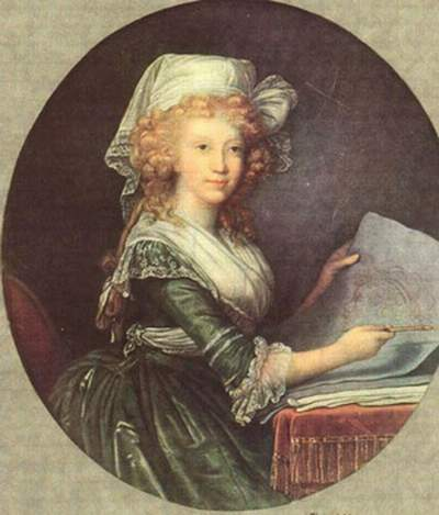 Maria Luisa Amelie, later Grand Duchesse of Tuscany